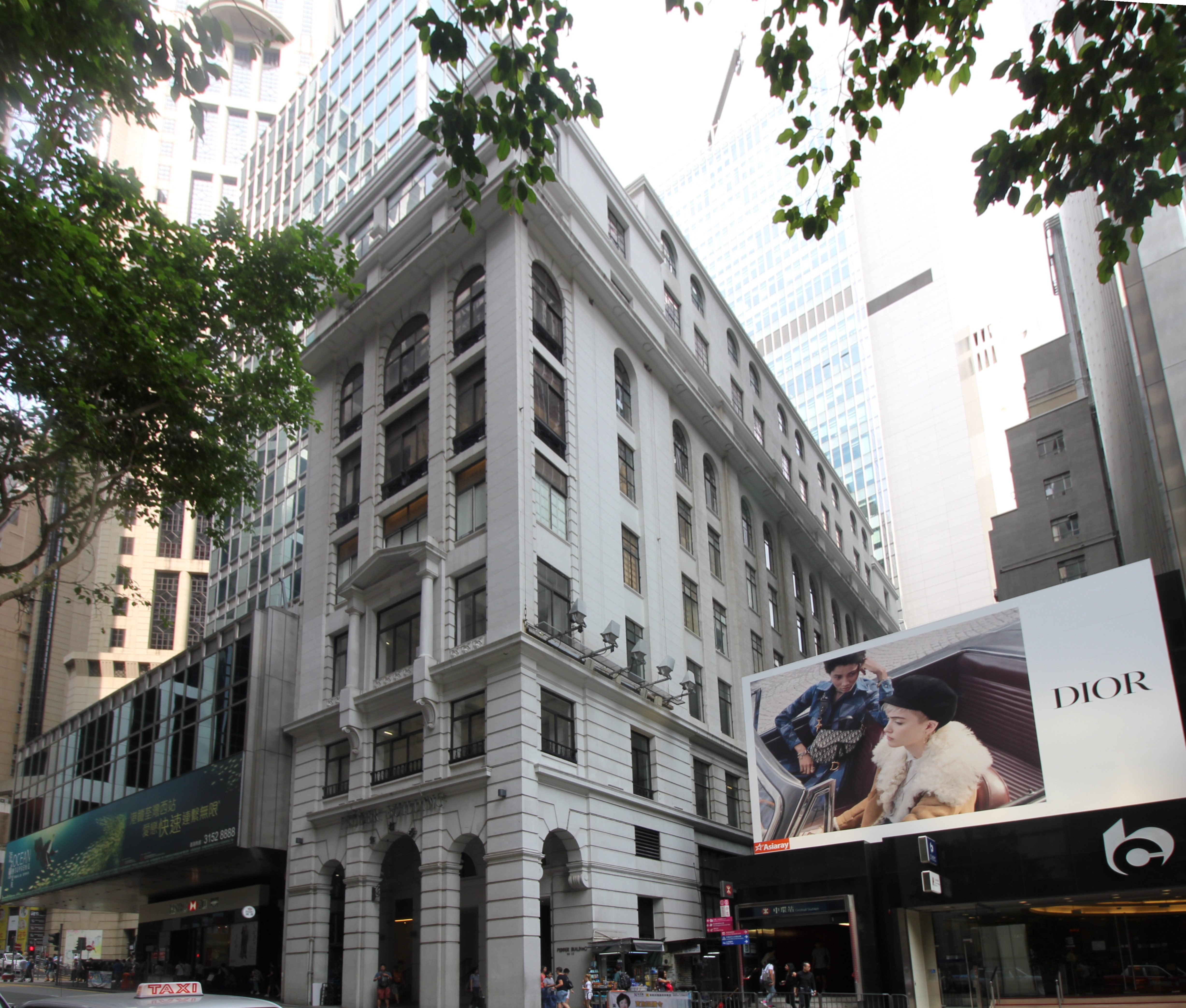 View of Pedder Building from the taxi stand near Landmark